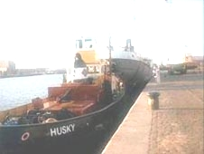 Huskey tug